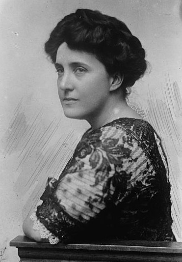 American writer Mary Roberts Rinehart